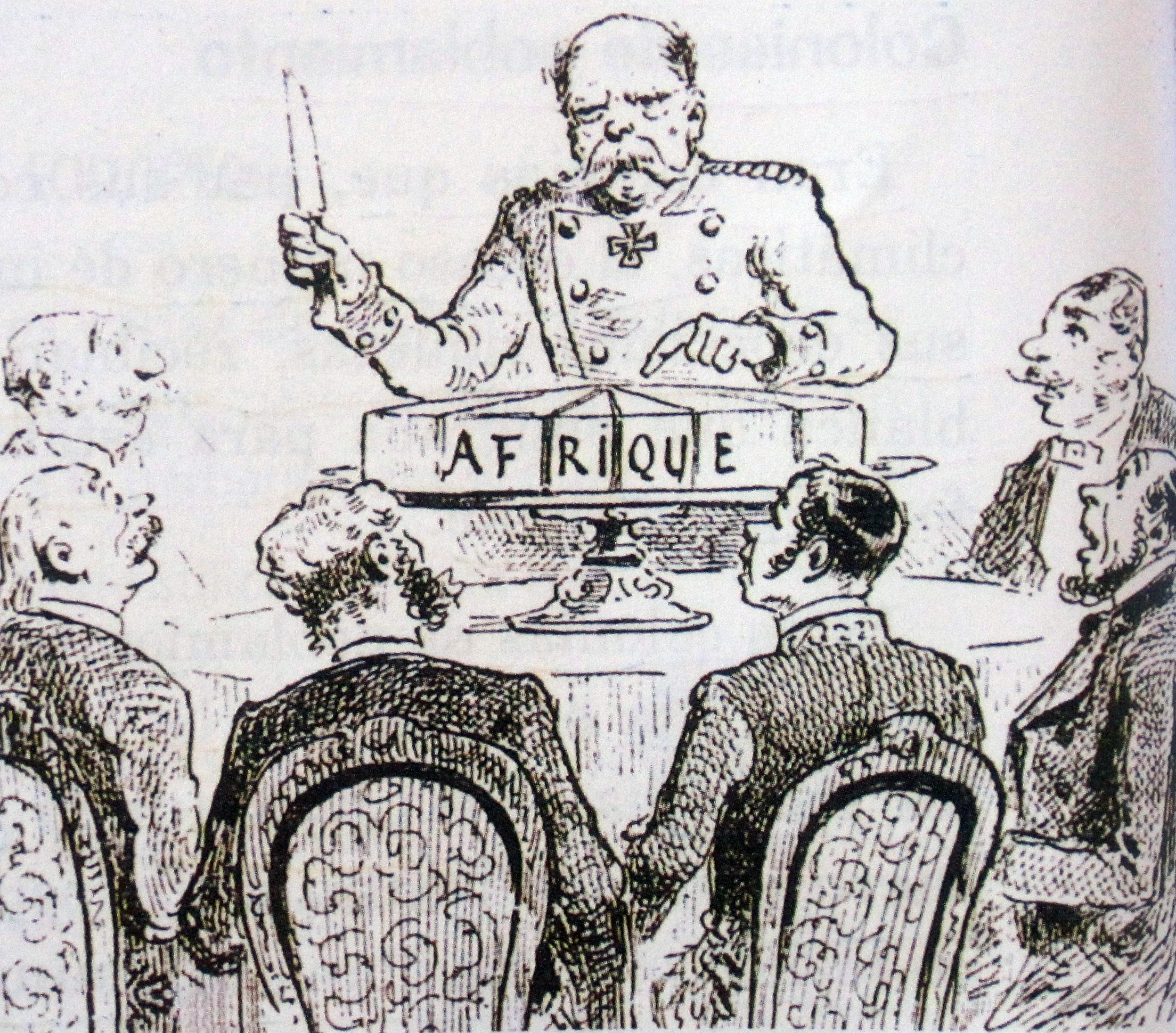 Cartoon about the Berlin Conference, original title: « Découpage de l’Afrique à la conférence de Berlin », Subtitle: LA CONFÉRENCE DE BERLIN - A chacun sa part, si l'on est bien sage.